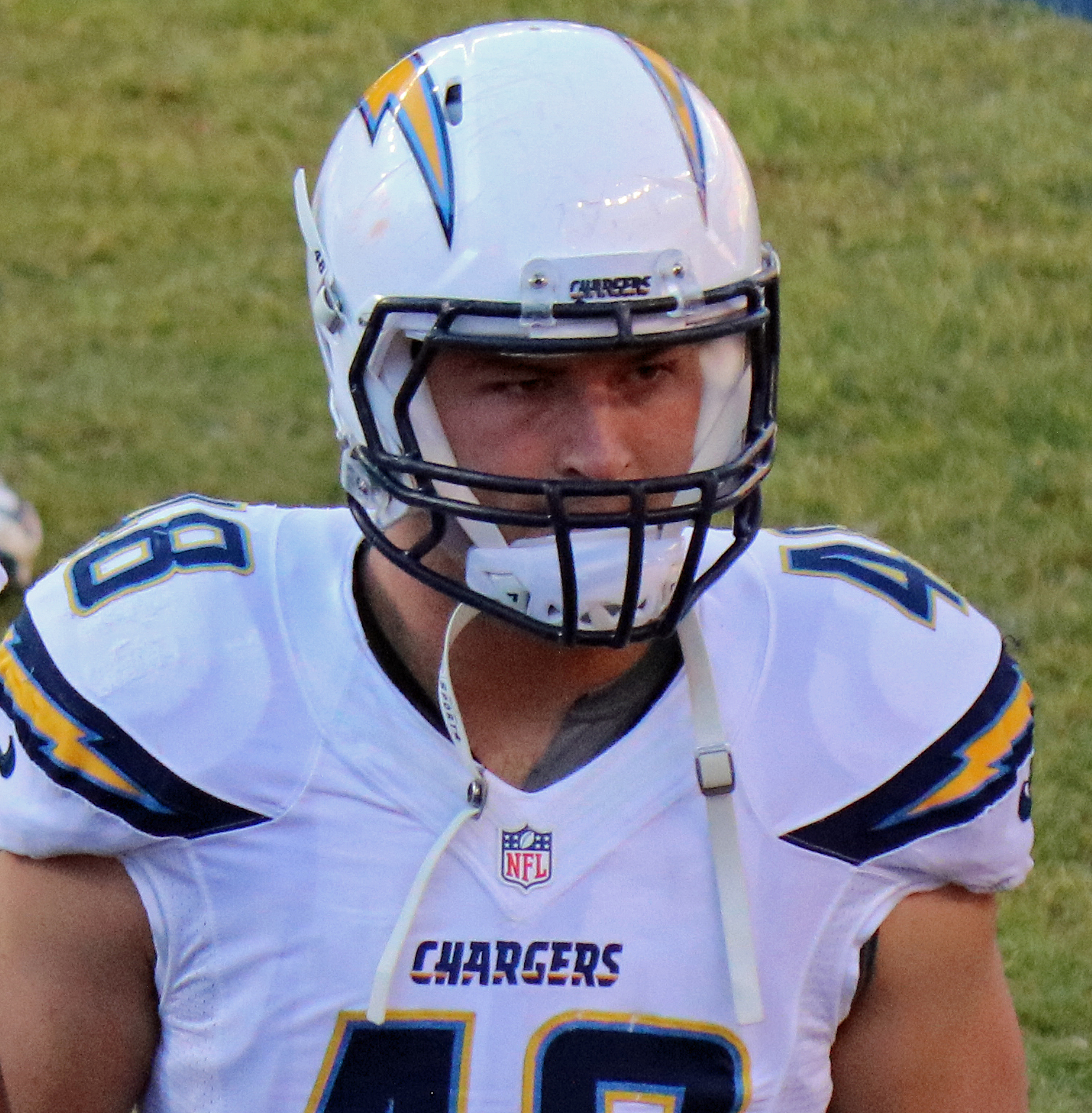 Nick Dzubnar, a player on the National Football League.